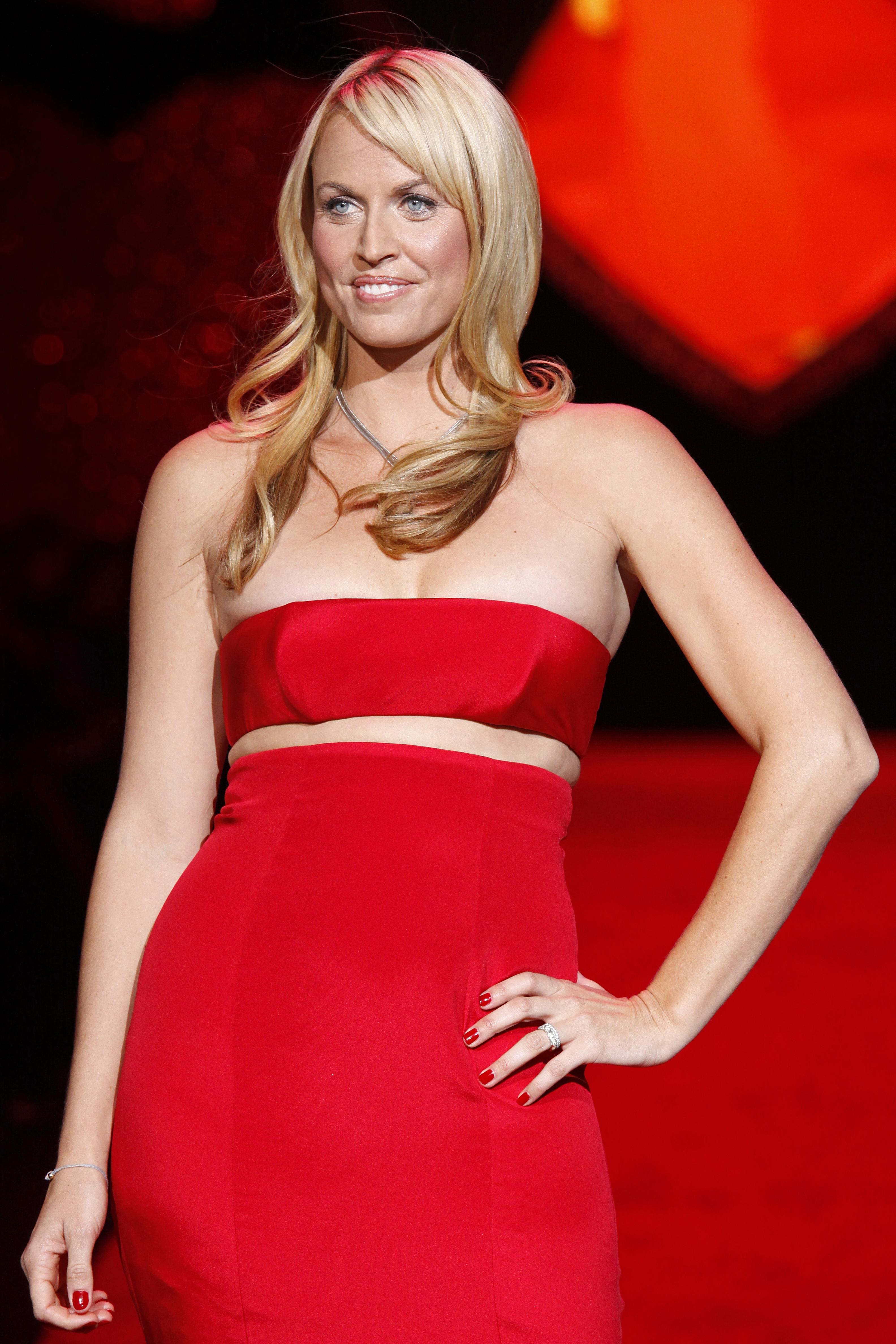 Amanda Beard at The Heart Truth's Red Dress Collection Fashion Show during New York Fashion Week. February 13, 2009 at Bryant Park.